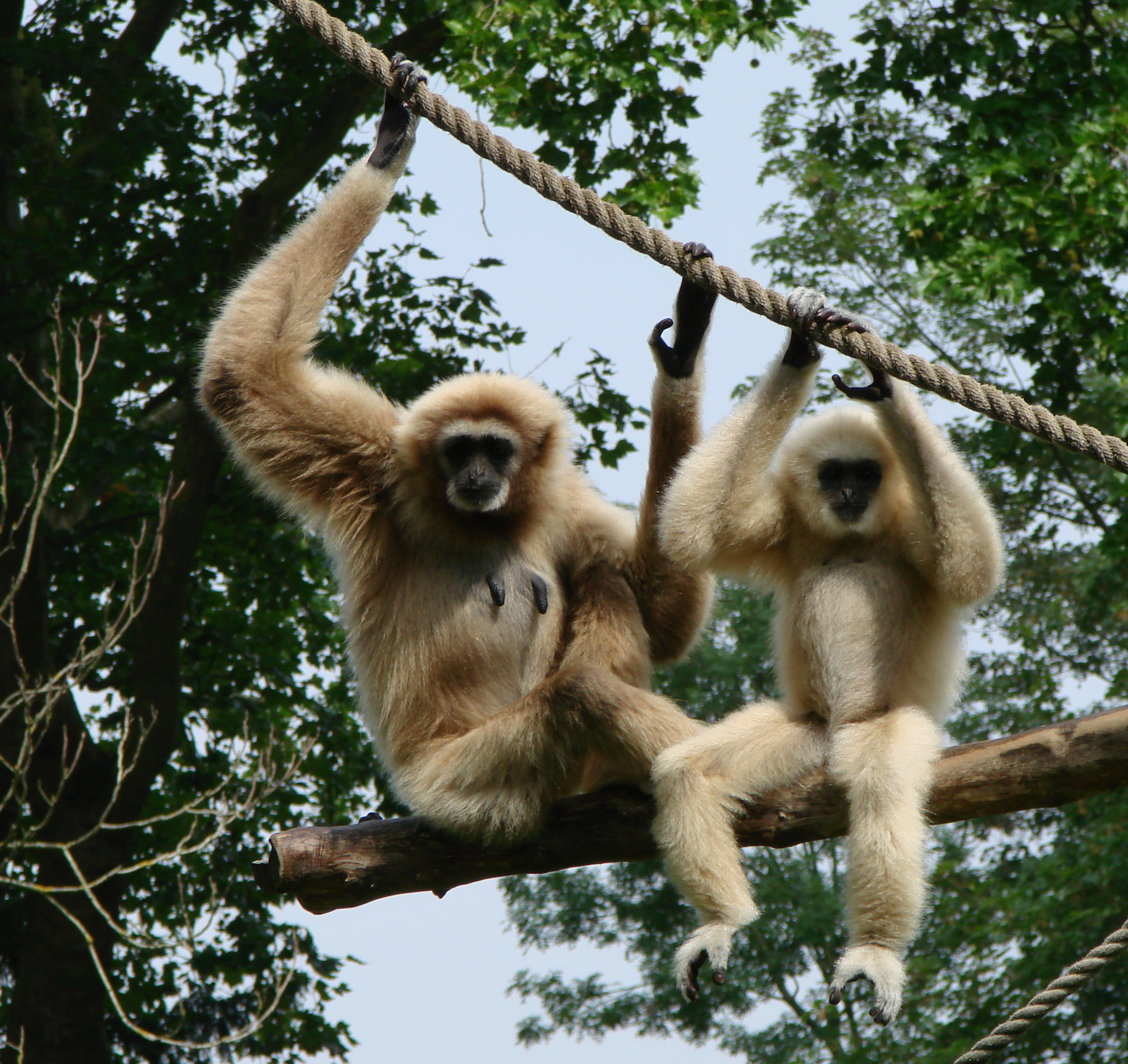 A mother white-handed gibbon and her young.Zoo d'Amiens.